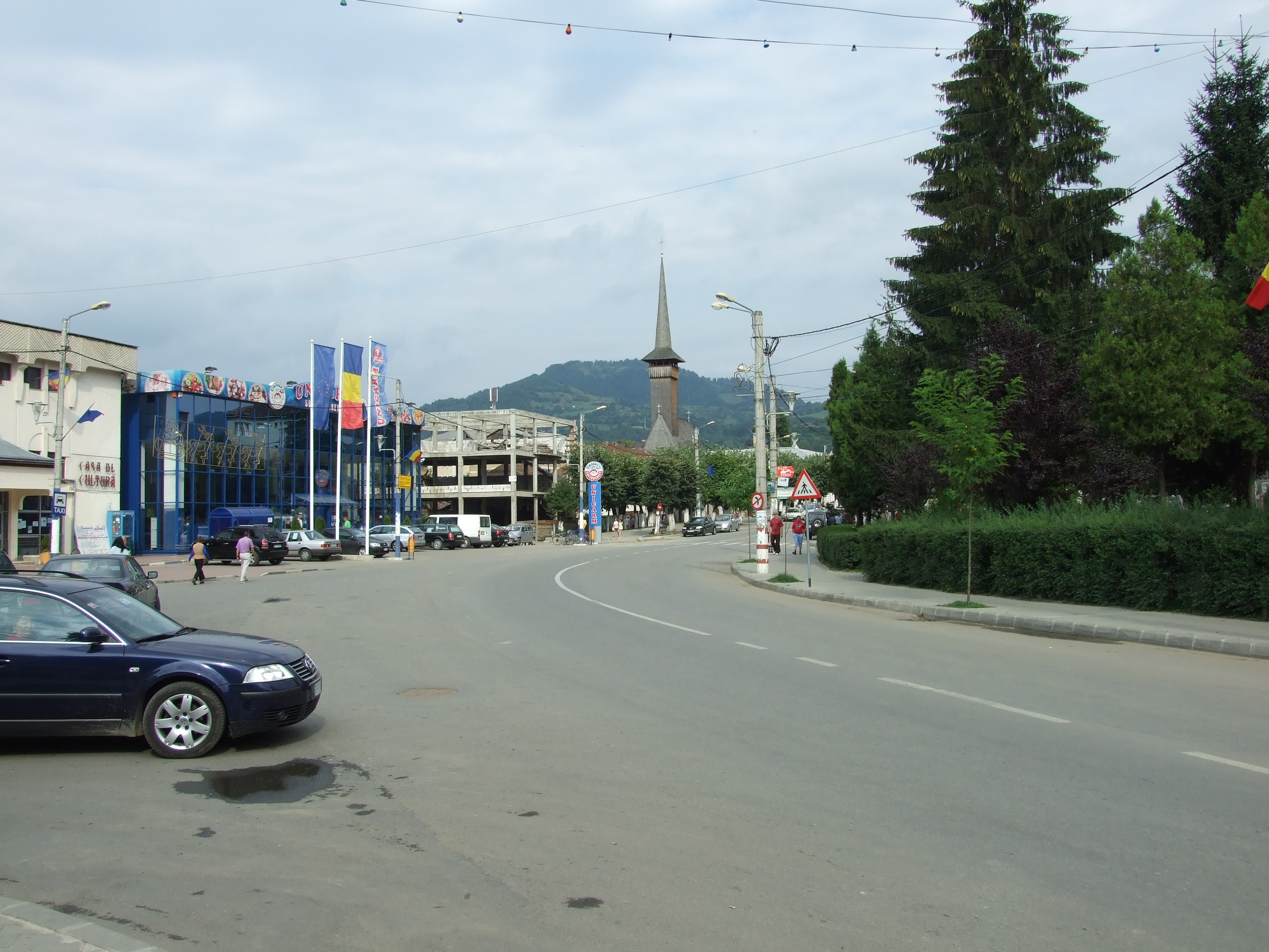 Vişeu de Sus town, Maramureş county, Romaniahelp